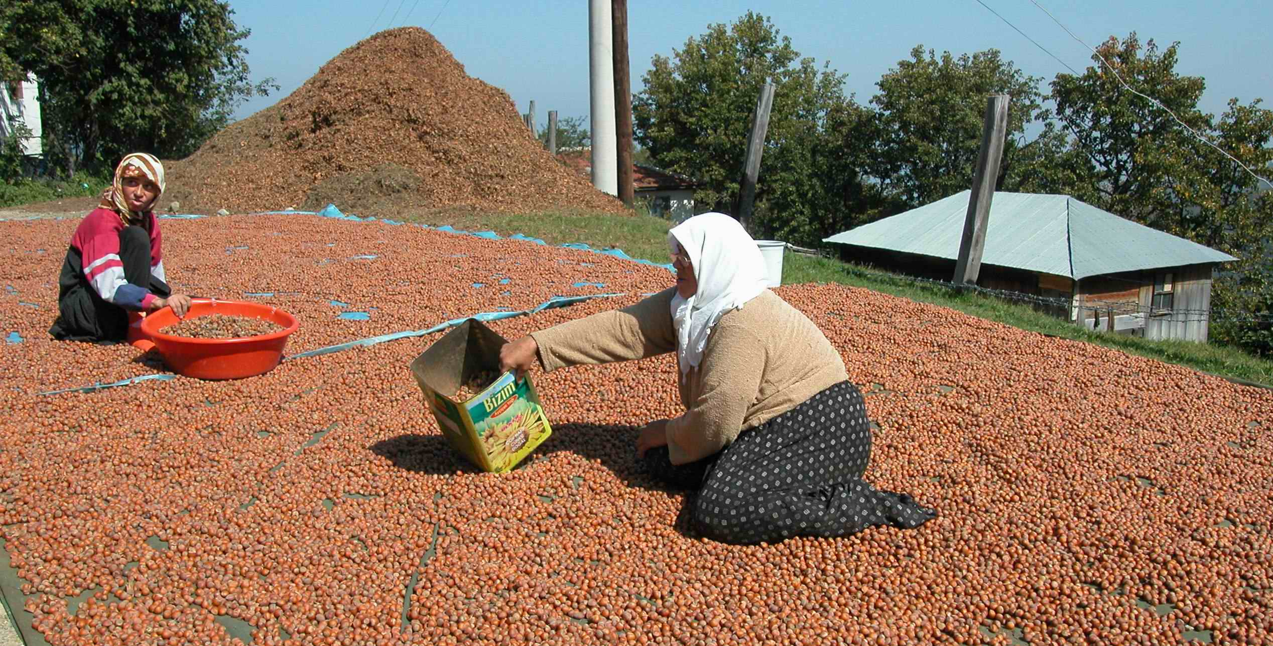 Turkish women drying nuts of Corylus maxima.- Sacmalipinar (Düsce-Province, Türkey).- From: G. Pils: Flowers of Turkey - a photo guide.- 448 pp.– Eigenverlag Gerhard Pils (2006).